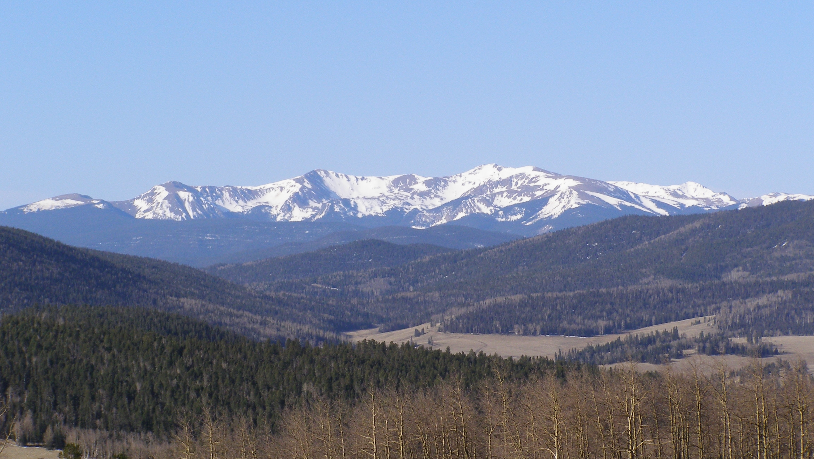 Wheeler Peak group, taken from along Forest Road 1950 in Valle Vidal, from a scenic viewpoint halfway between Comanche Point and Shuree Ponds. Whether or not you consider Mount Walter as a significant summit, it blocks the actual summit of Wheeler Peak, when viewing from Bobcat Pass, Red River Pass, NM-578 or Valle Vidal.